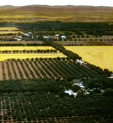 An outdoor photo of the orchards surrounding the Sonic Ranch studio complex.